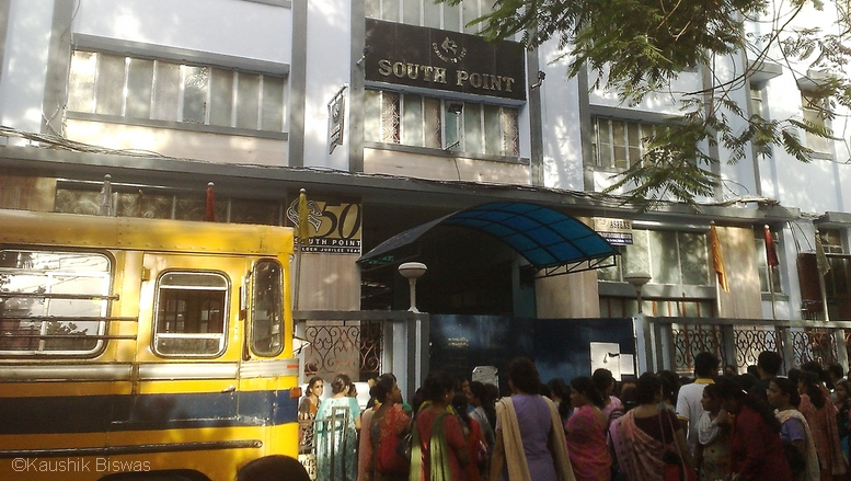 16 Mandeville Gardens, Kolkata - 700019, West Bengal, India.